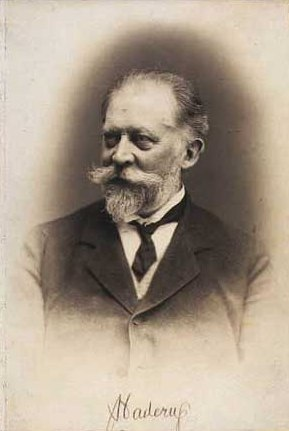 Victor Frants Nachtegall Haderup (1845-1913), Danish dentist